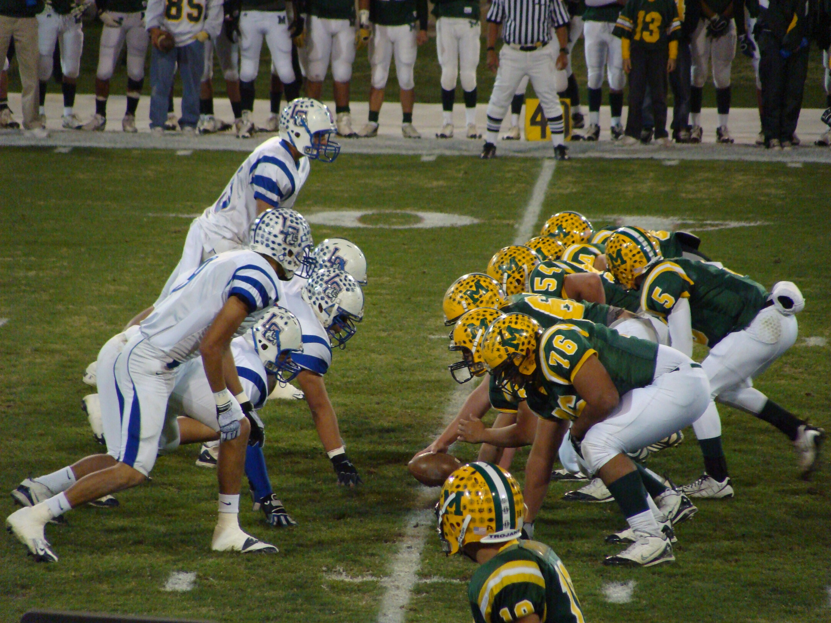 LCHS v. Mayfield High annual football rivalry game